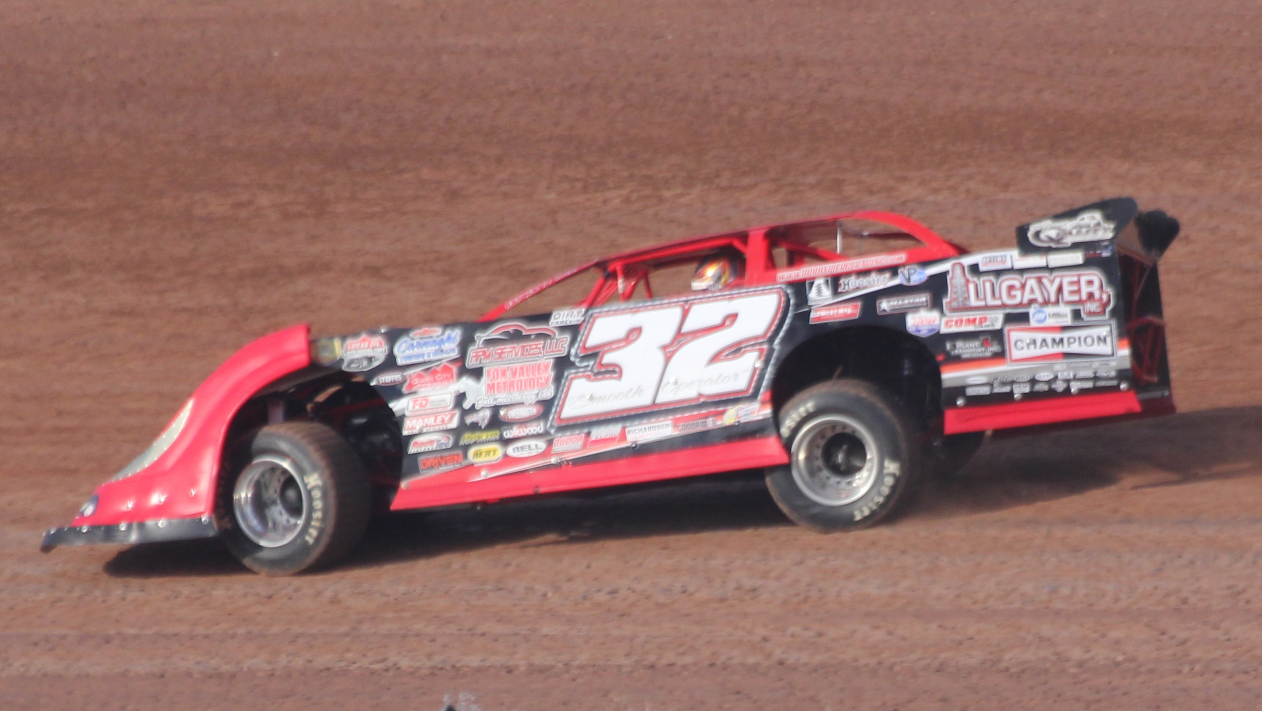 The dirt late model for Bobby Pierce (racing driver) at a Lucas Oil Late Model Dirt Series event at the Oshkosh Speedzone (Oshkosh, Wisconsin).